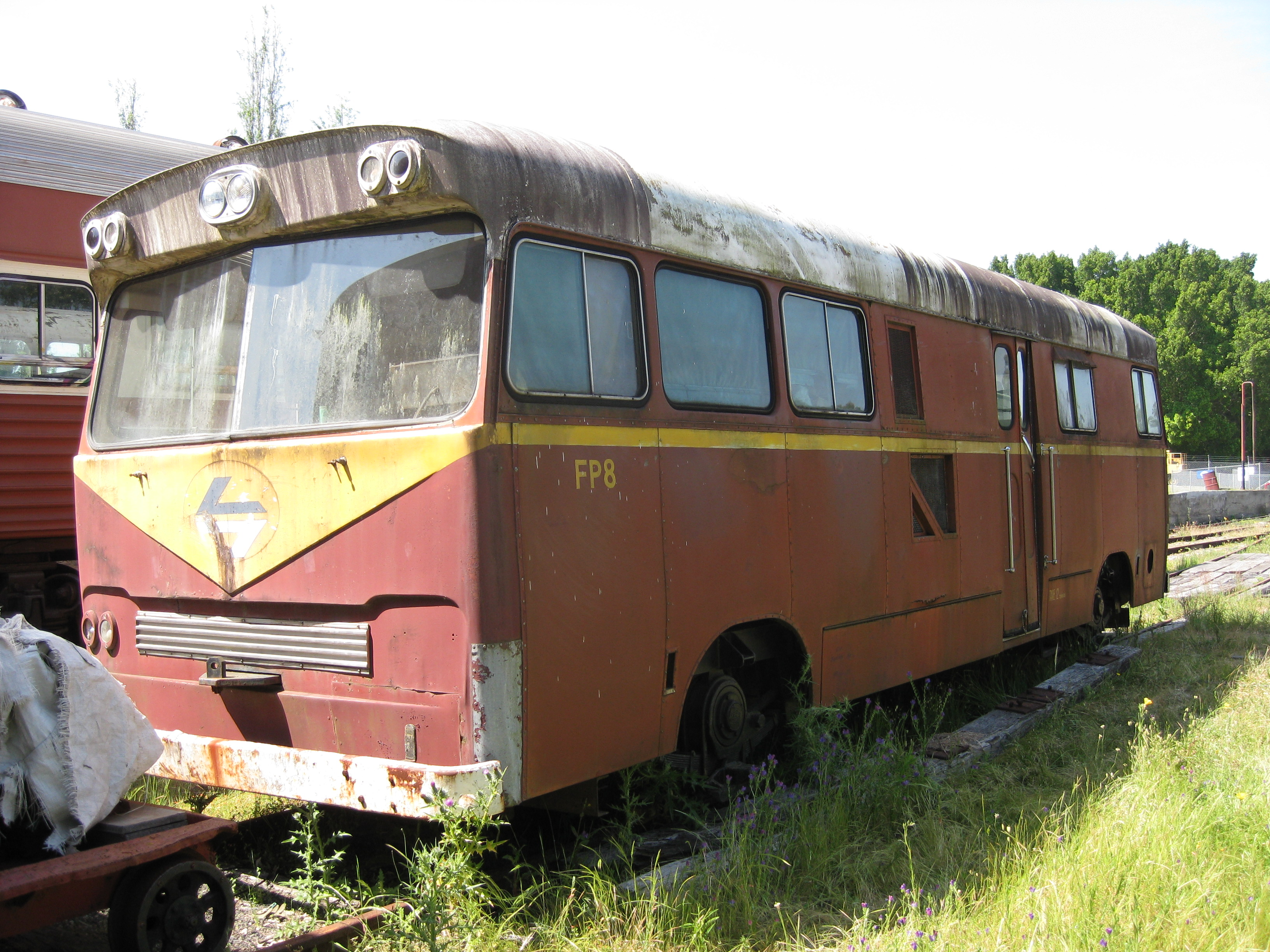 Former Department of Railways New South Wales pay bus FP 8 preserved at the Richmond Vale Railway Museum.